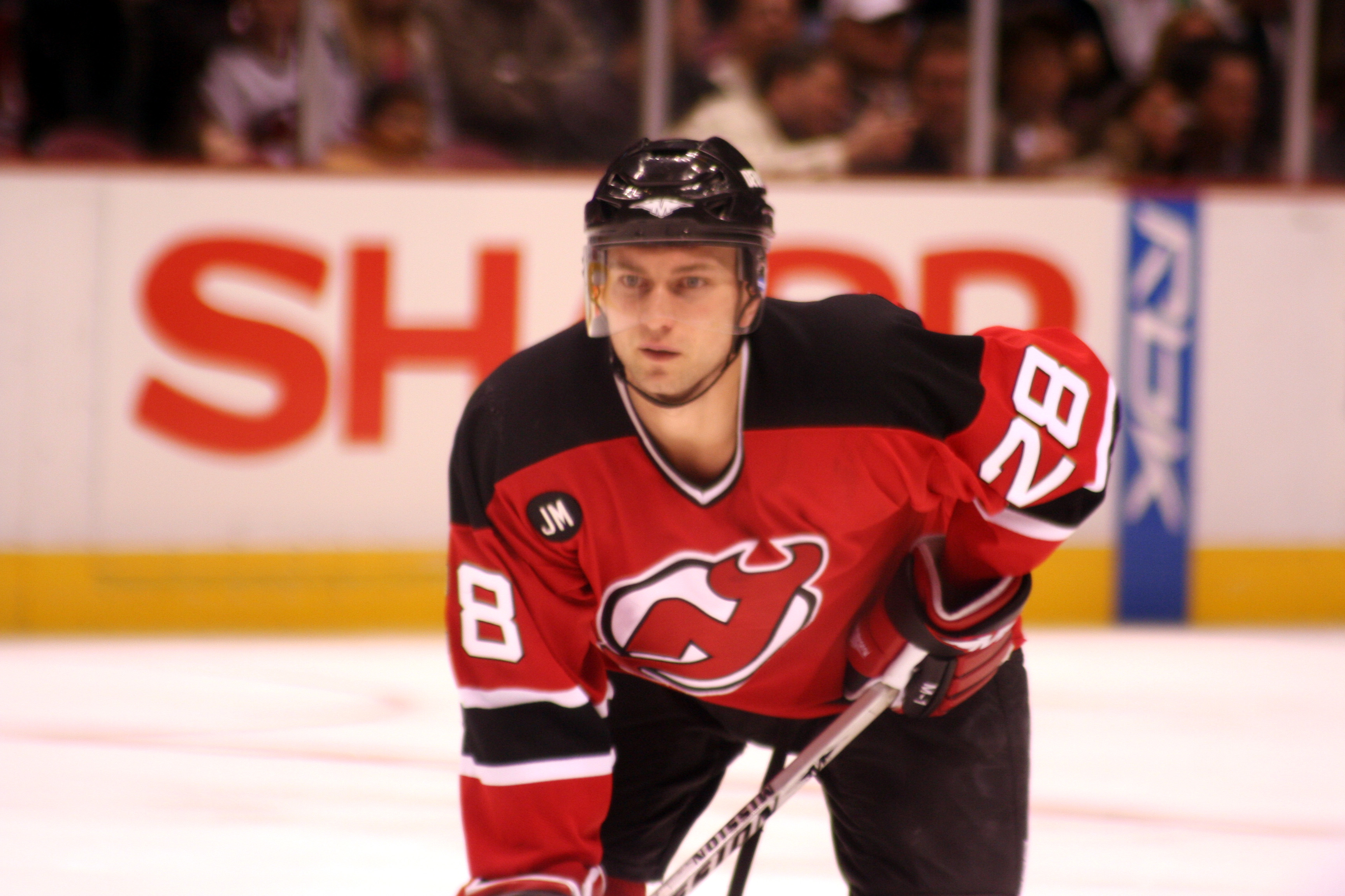 Picture taken of Brian Rafalski at Continental Airlines Arena during game between New Jersey Devils and New York Islanders, March 14, 2006.